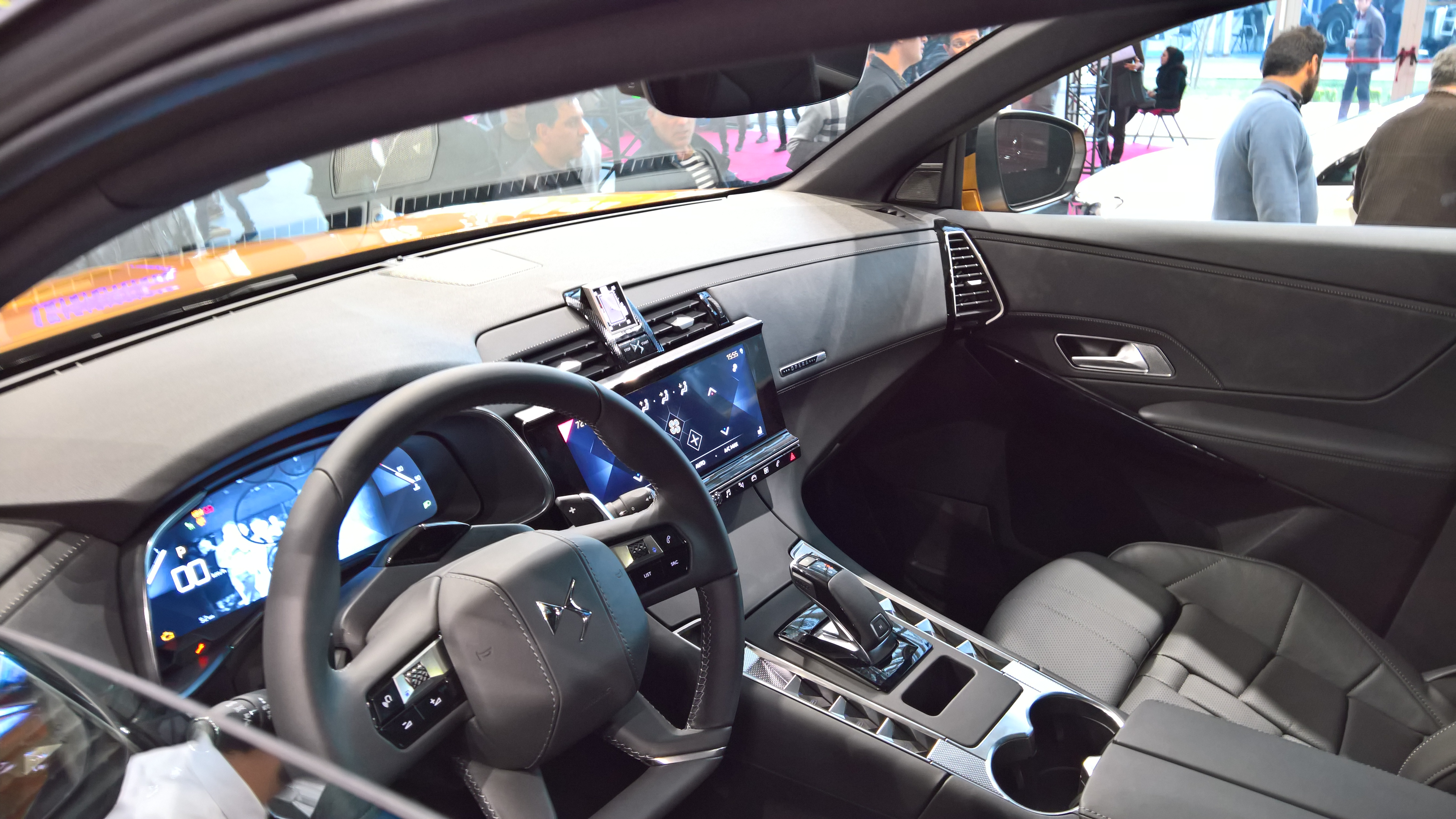 DS 7 Crossback, 2nd Tehran autoshow, November 2017